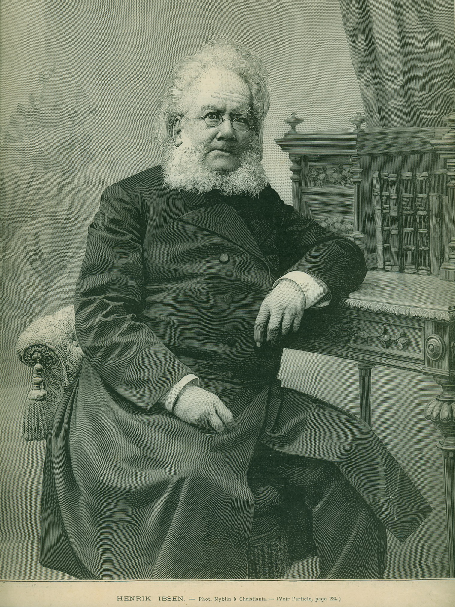 a press engraving of the famous norwegian author Henrik IBSEN, published in L'ILLUSTRATION, a french magazine, in 1898